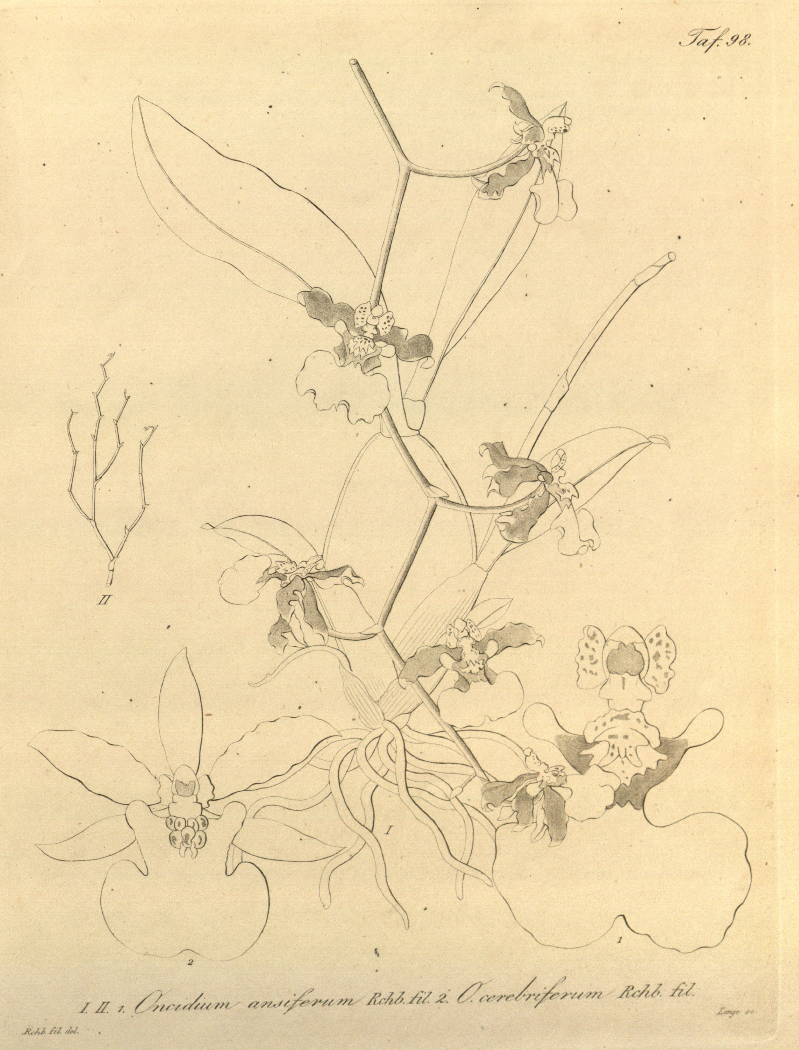 Illustration of Oncidium ansiferum and Oncidium ensatum (as syn. Oncidium cerebriferum)